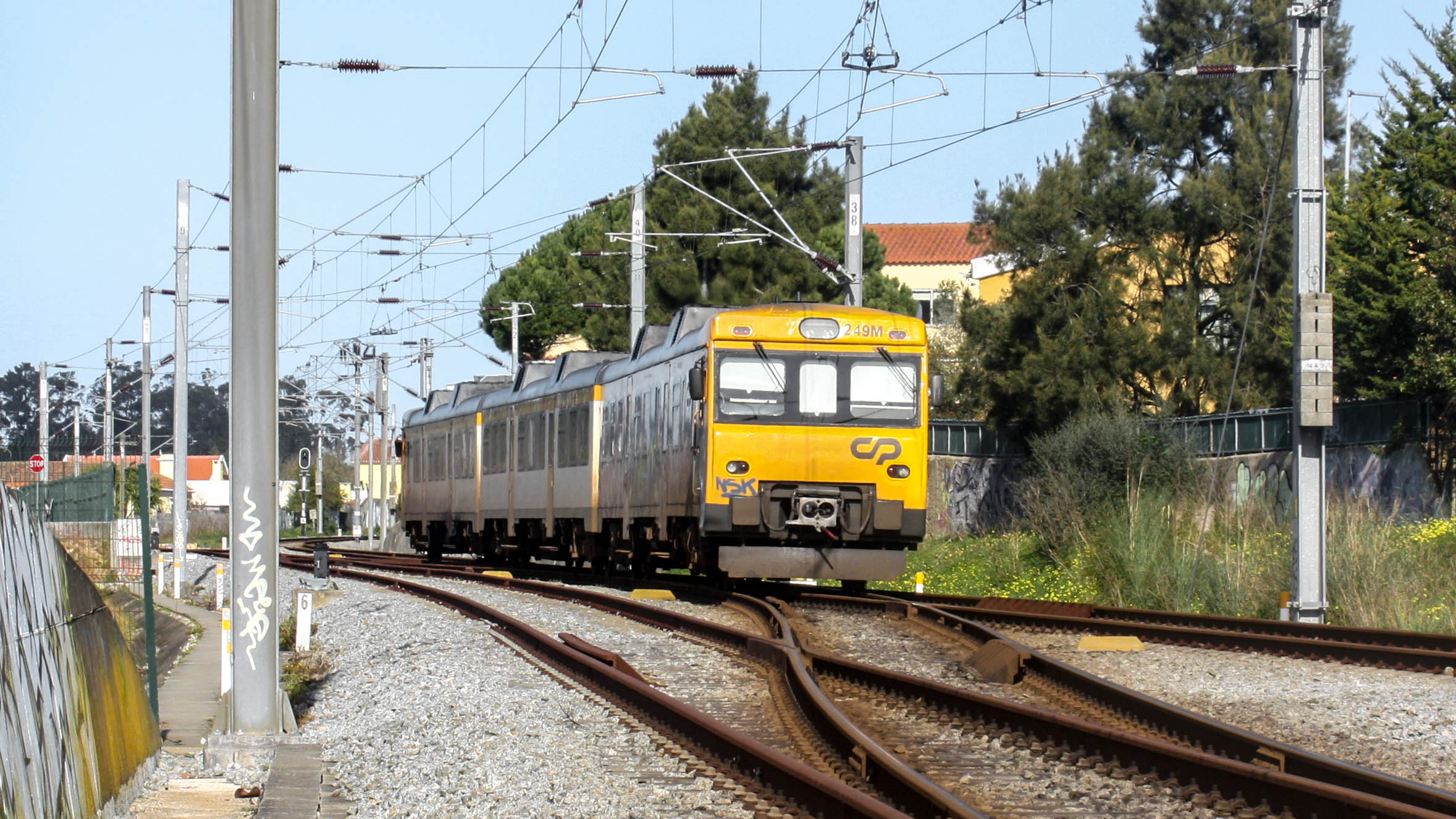 Regional train of train class 592.2 to Caldas da Rainha close to Mira Sintra-Meleças